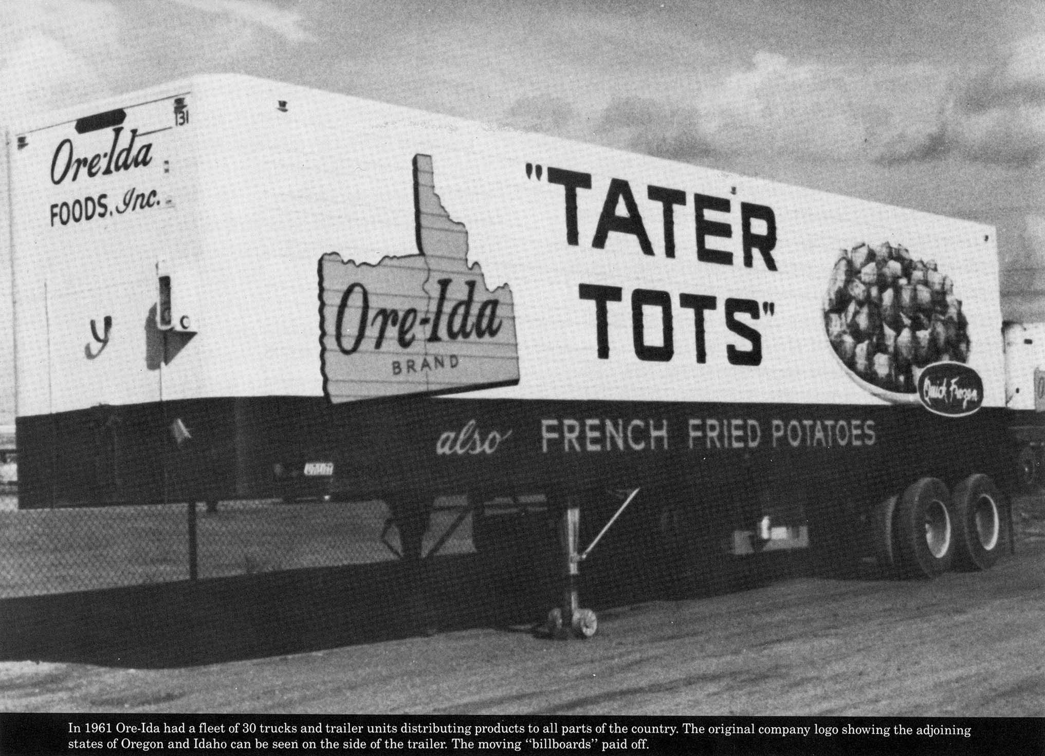 One of the early Oreida trucks with Tater Tots on the side